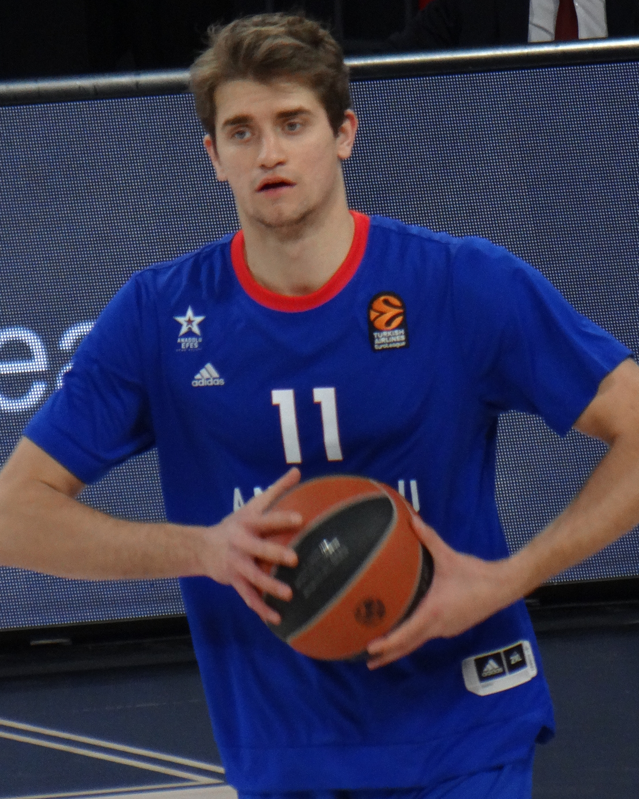 Berk Demir 11 Anadolu Efes 20180119